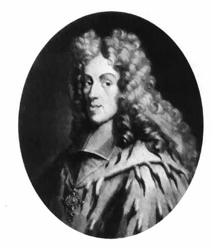 Portrait of Joseph Clemens of Bavaria (1671-1723), Prince-Bishop of Liège from 1688 till 1723